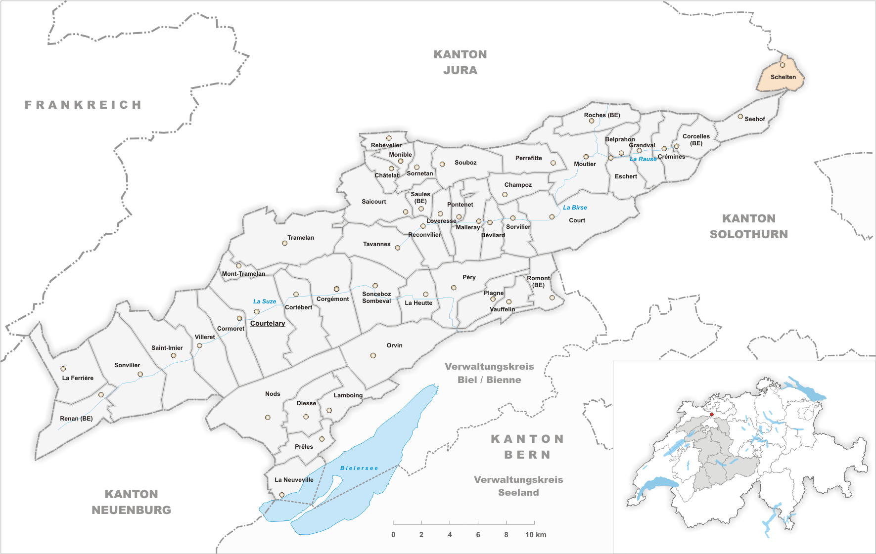 Municipality Schelten